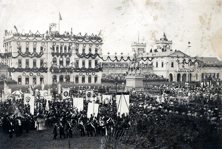 One of the four oldest known reportage photos of Hannover, Germany, taken during the consecration of Ernst-August-monument in front of the central station on 21st of September, 1861.